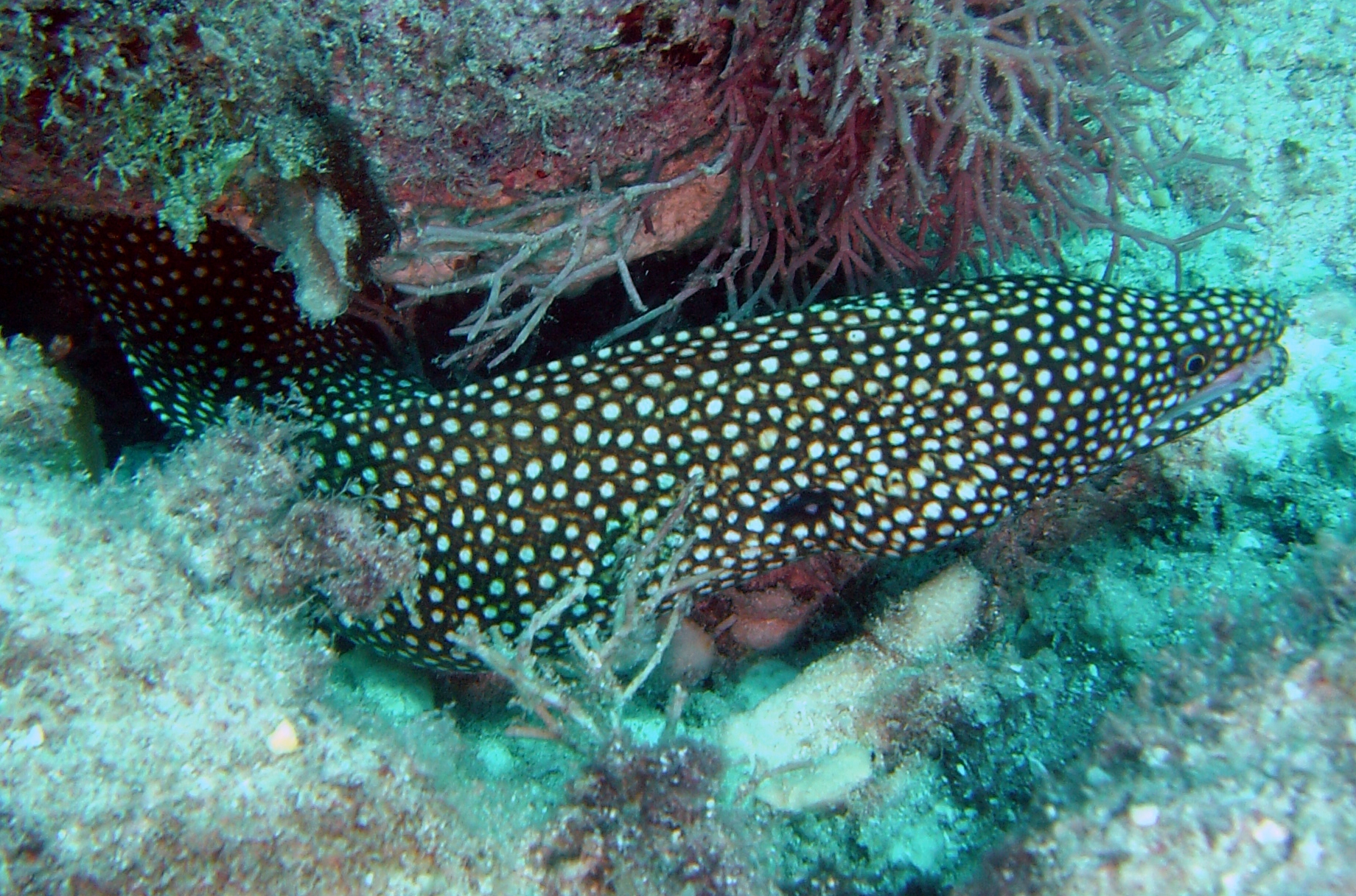 Whitemouth moray (Gymnothorax meleagris) Image ID: reef1490, NOAA's Coral Kingdom Collection Location: Saipan